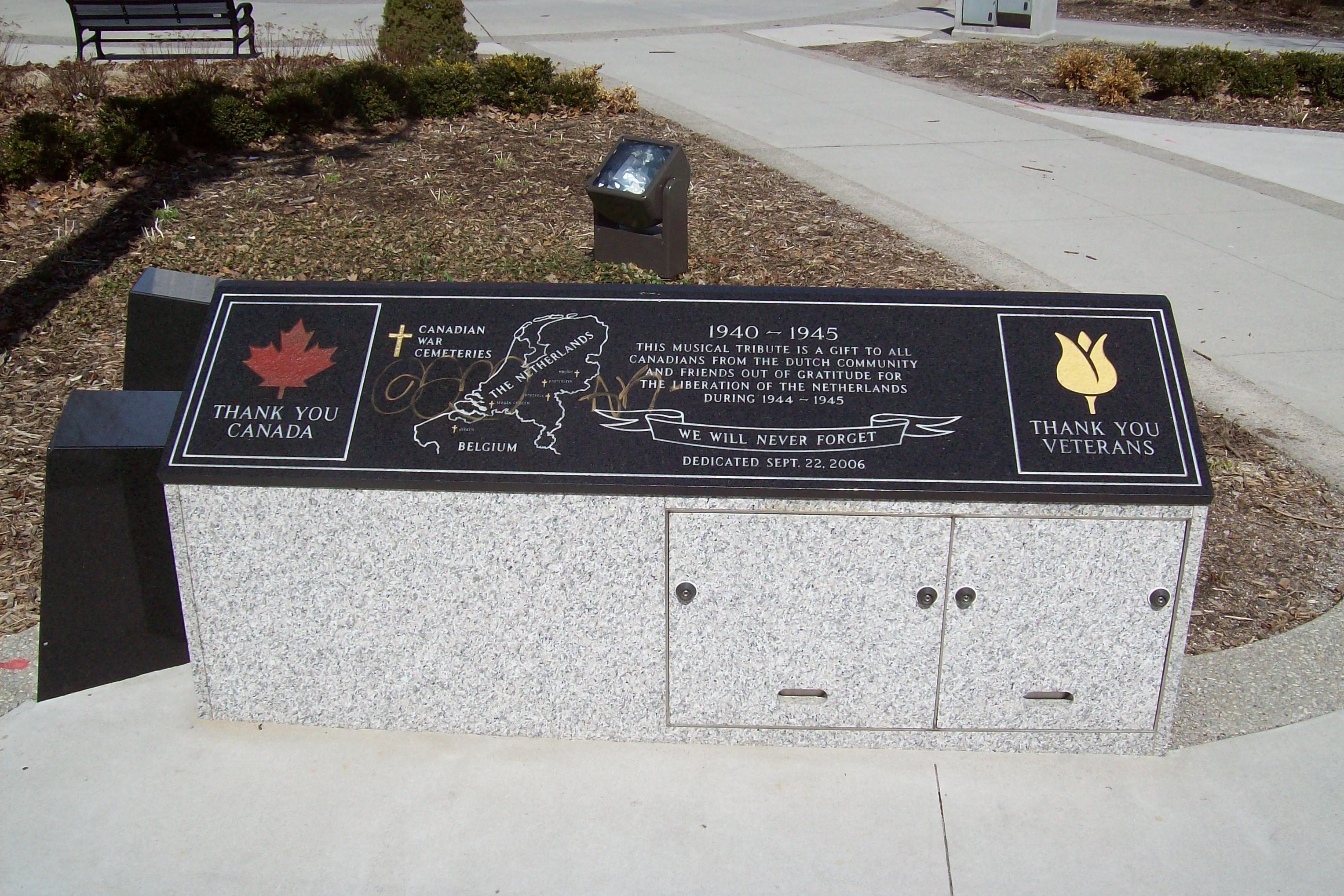 Victoria Park London Ontario Canada. Home of Sunfest.